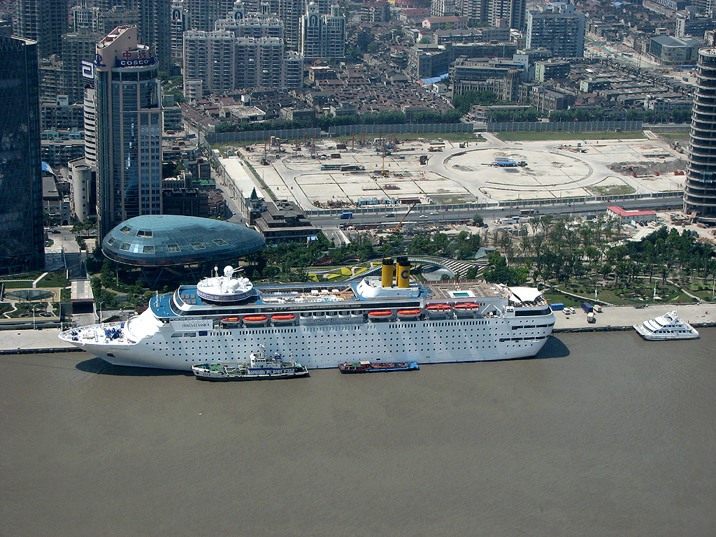 Costa Classica in May 2009 in Shanghai, Foto taken from Oriental Pearl Tower.